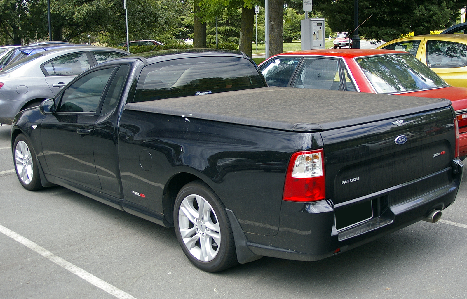 Rear view of a 2008 Ford FG Falcon XR8 Ute.